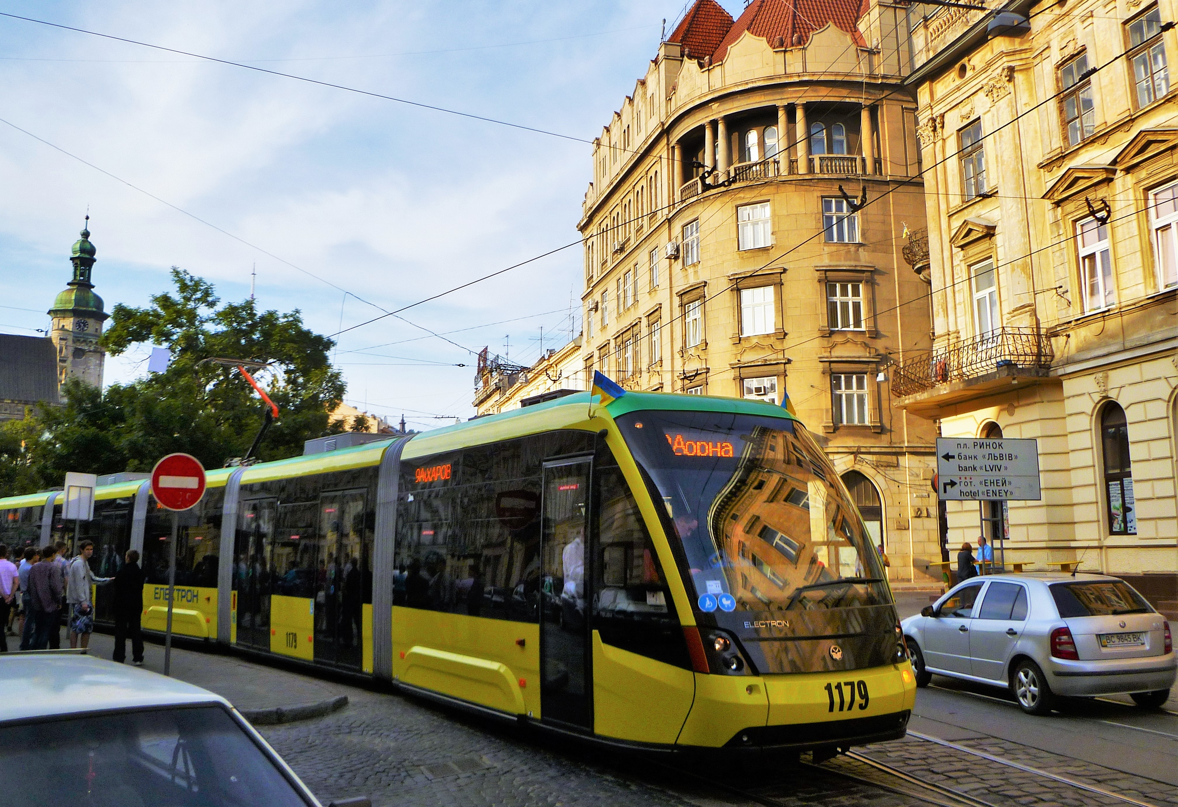 The Ukrainian-made 100% low-floor tramway, designed by Lviv's constructors in the Lviv-based company Electron